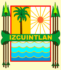 Coat of arms of this department of GuatemalaPermission